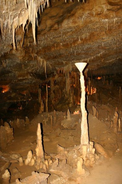 Grottes de Cougnac, Lot Dep., France. Interior of the first cave